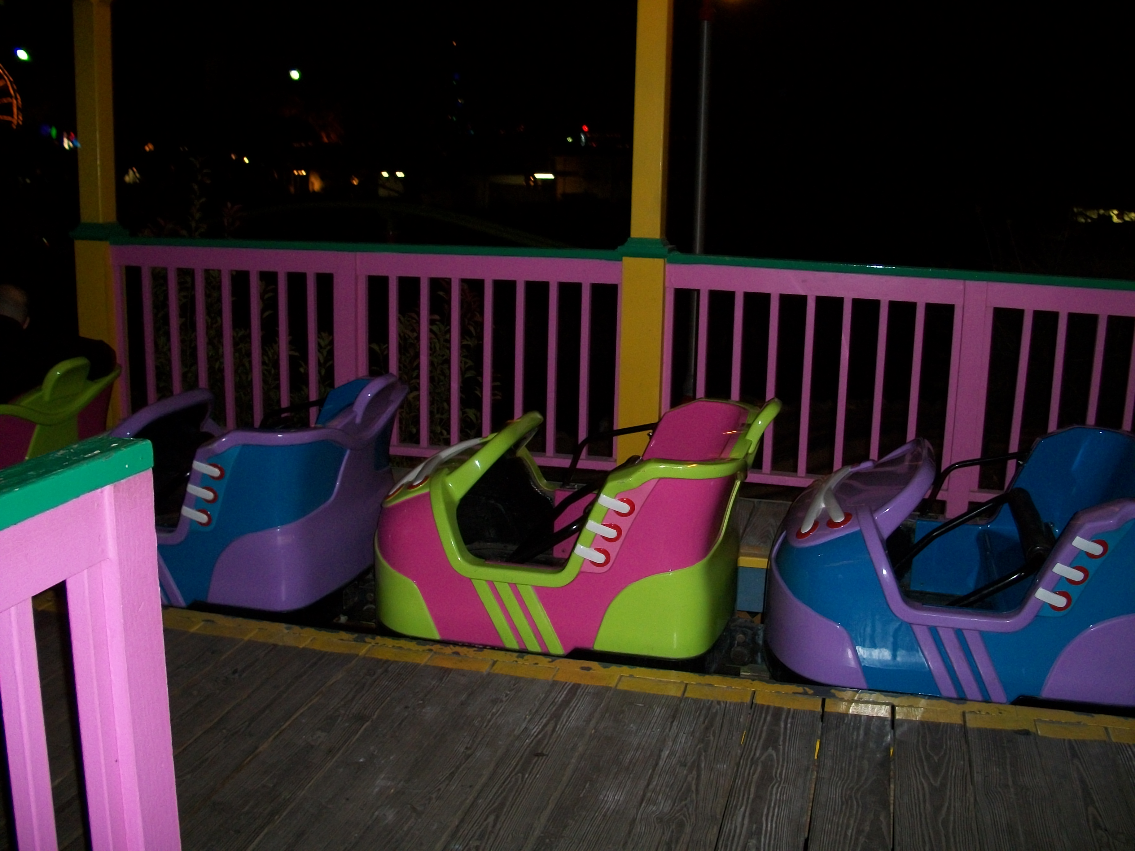 Kiddee Koaster at Fiesta Texas during Holiday In The Park 2010. You can see my trip report on